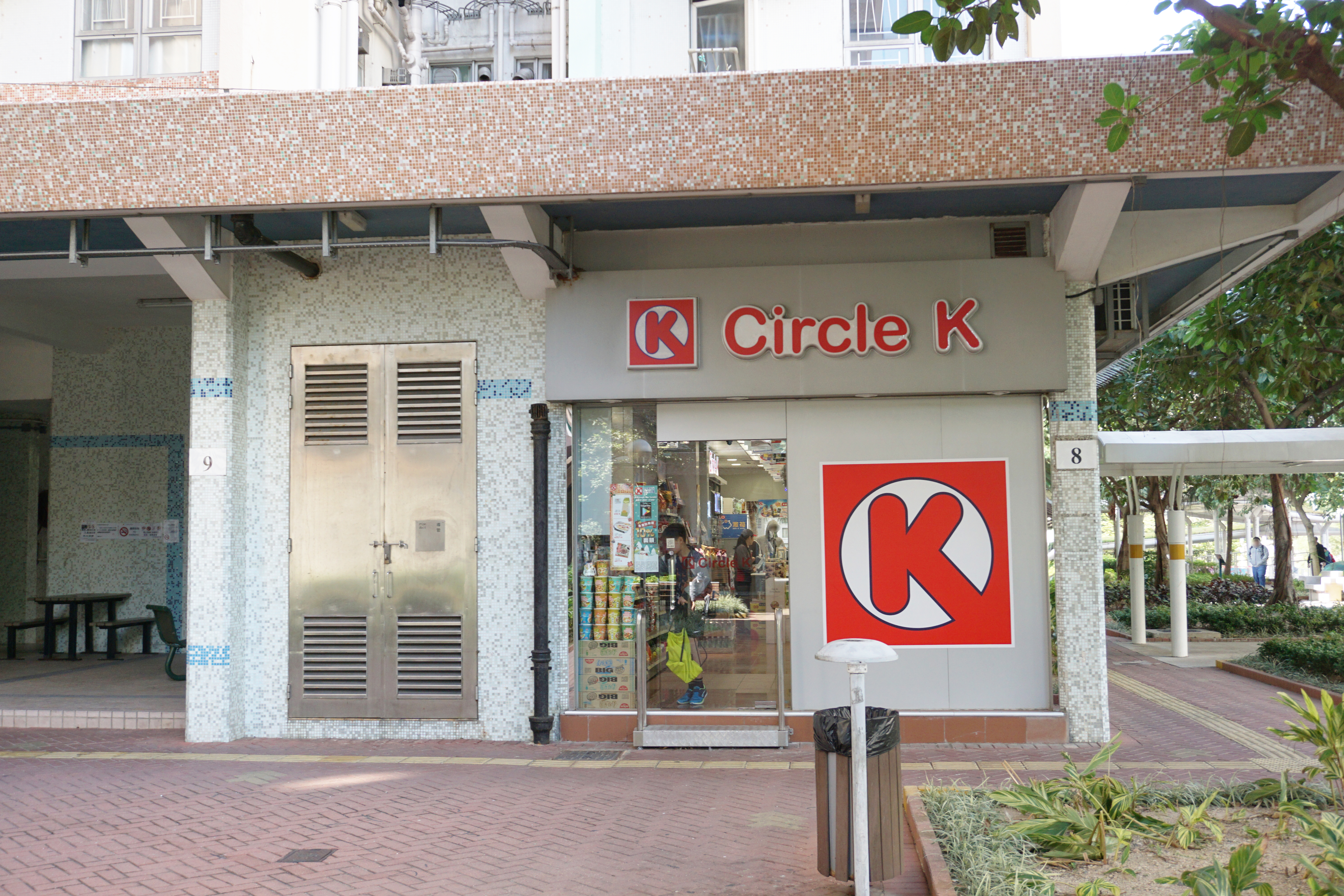 Circle K in Sau Mau Ping South Estate, Hong Kong.